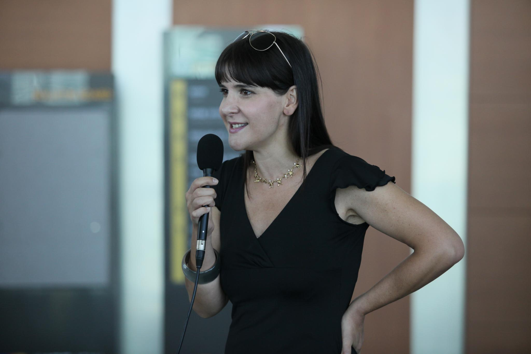 Lift Asia 2009